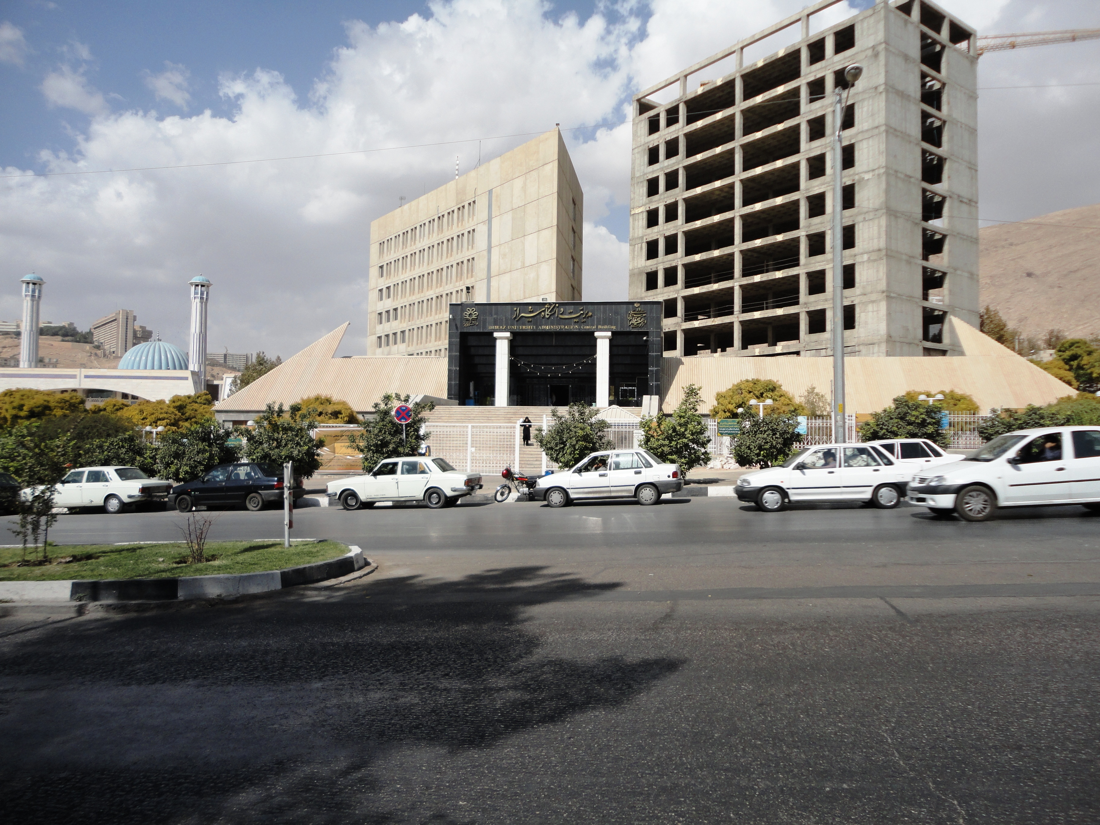 Shiraz University